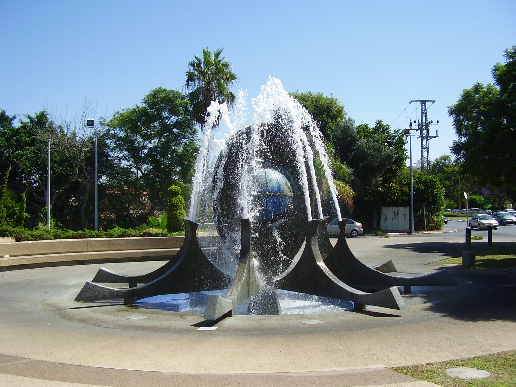 fountaine in the sister cities garden in holon